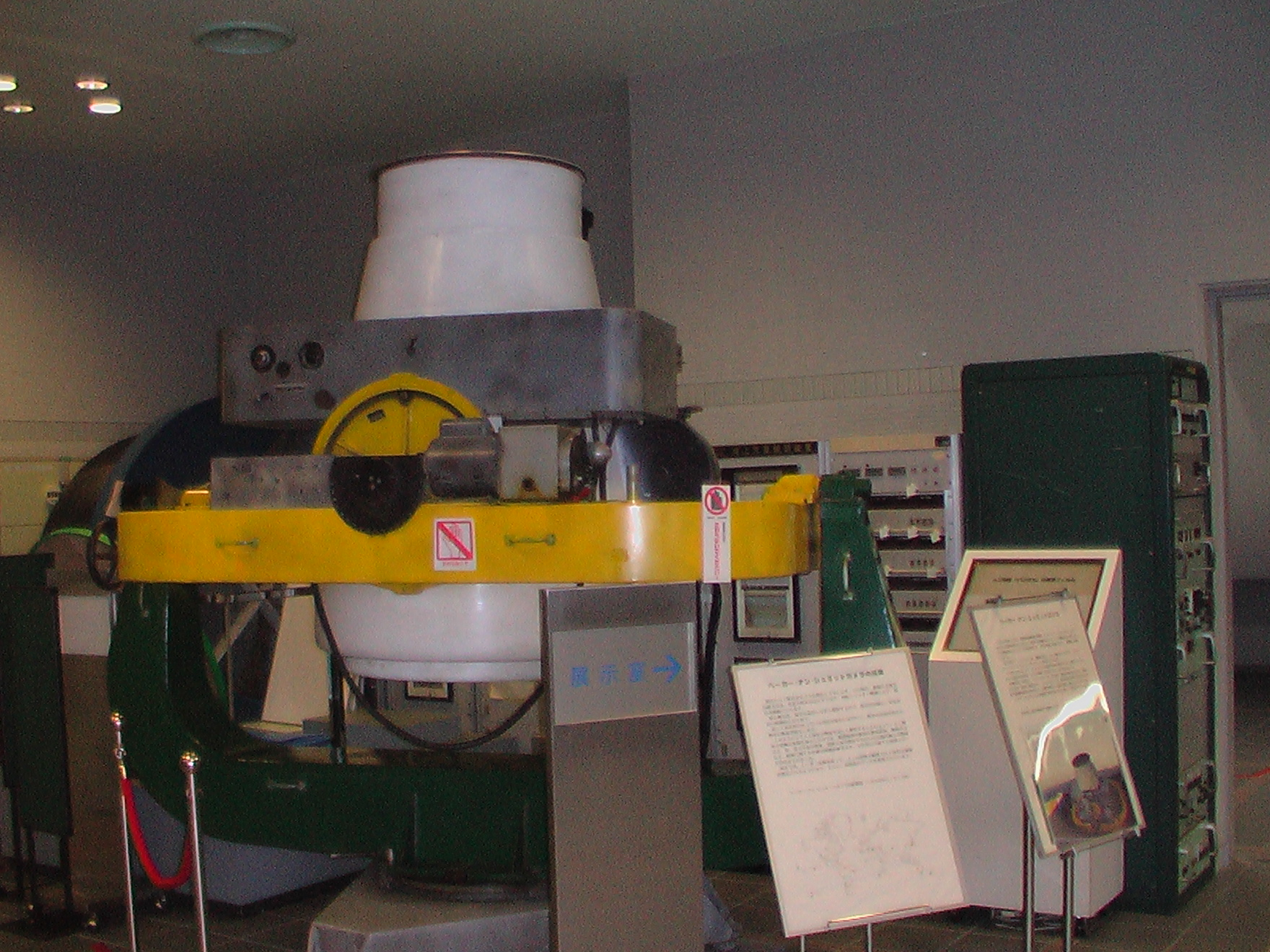 Baker-Nunn camera preserved at Himeji science museum. It was used for Smithsonian's Satellite-Tracking Program operated at Mitaka observatory in 1960's. In 1968 it was moved to the Dodaira observatory.